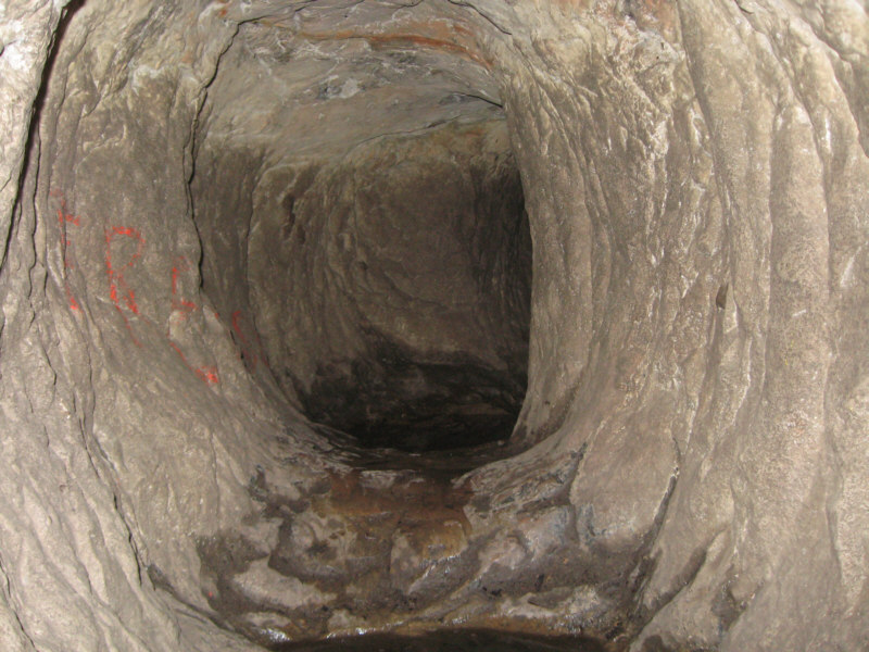 In one of the tunnels of the Lippoldshöhle